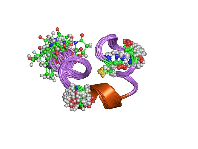 Cartoon representation of the molecular structure of protein registered with 1r9i code.